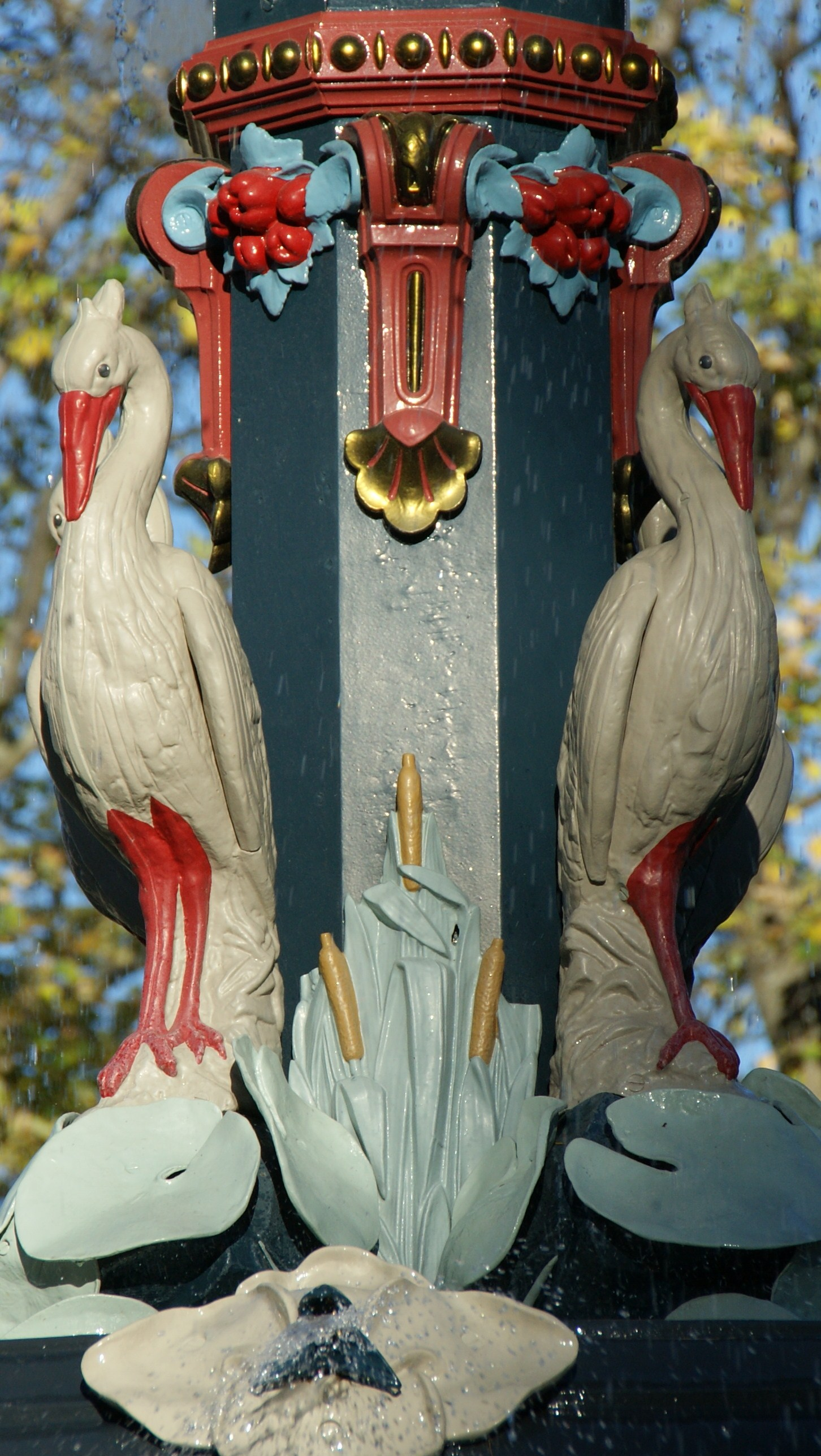 Detail of the Peacock Fountain in the Botanical Gardens, Christchurch.